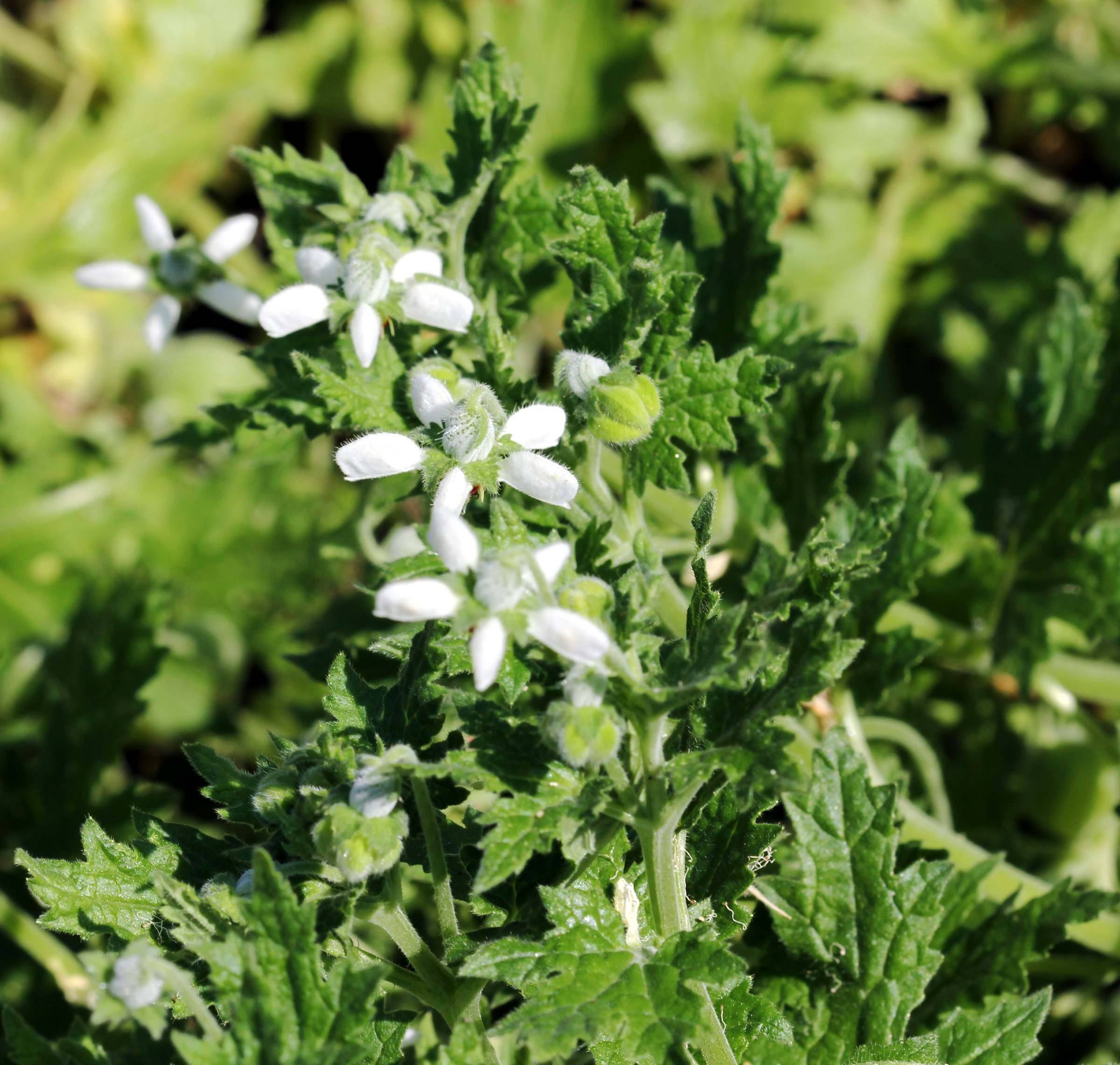 Plant Blumenbachia insignis, (Blumenbachia insignis), the Botanical Gardens of Charles University, Prague, Czech Republic